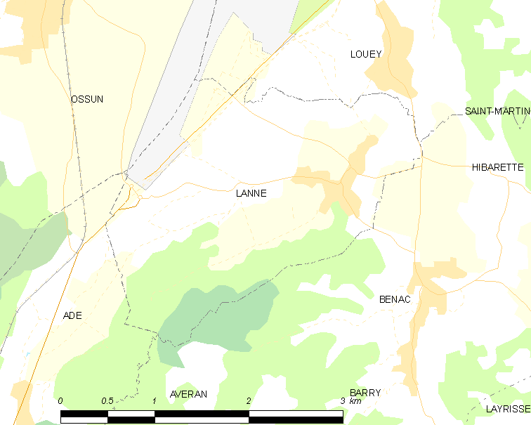 Map of French municipality